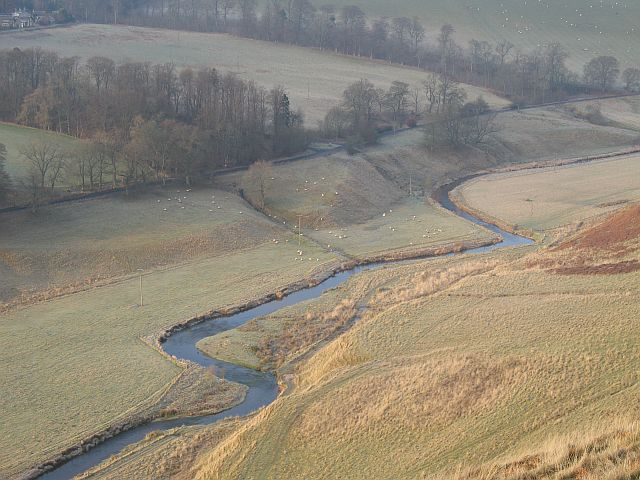 Lyne Water View of the river from a path contouring Whiteside Hill. The road junction for Callands can be seen on the B7059 which runs down the west side of the river.